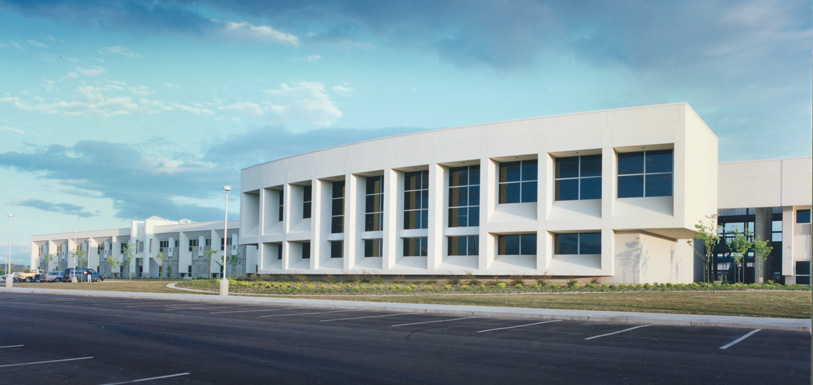 buchanan 3